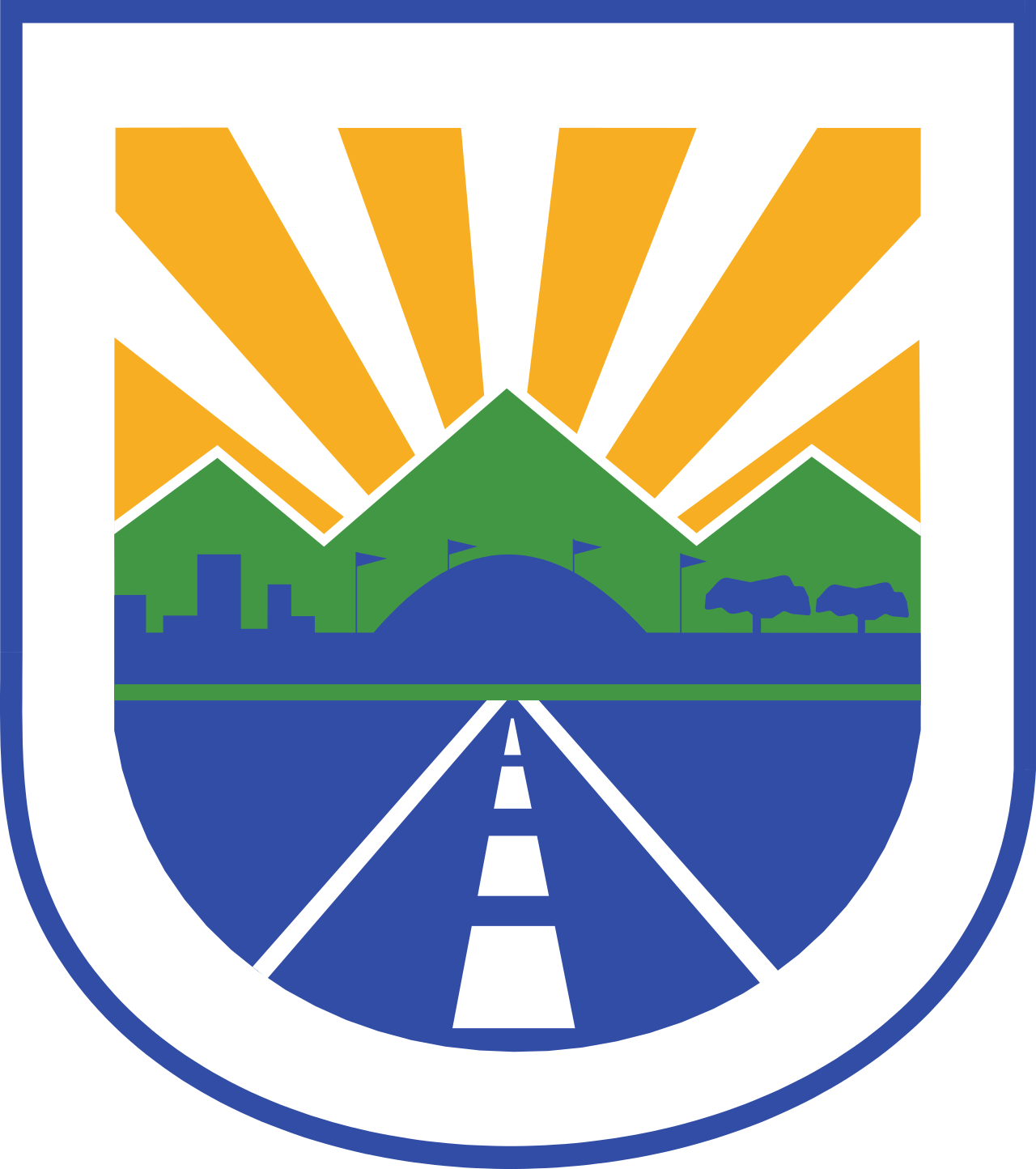 Escudo Distrital de Independencia